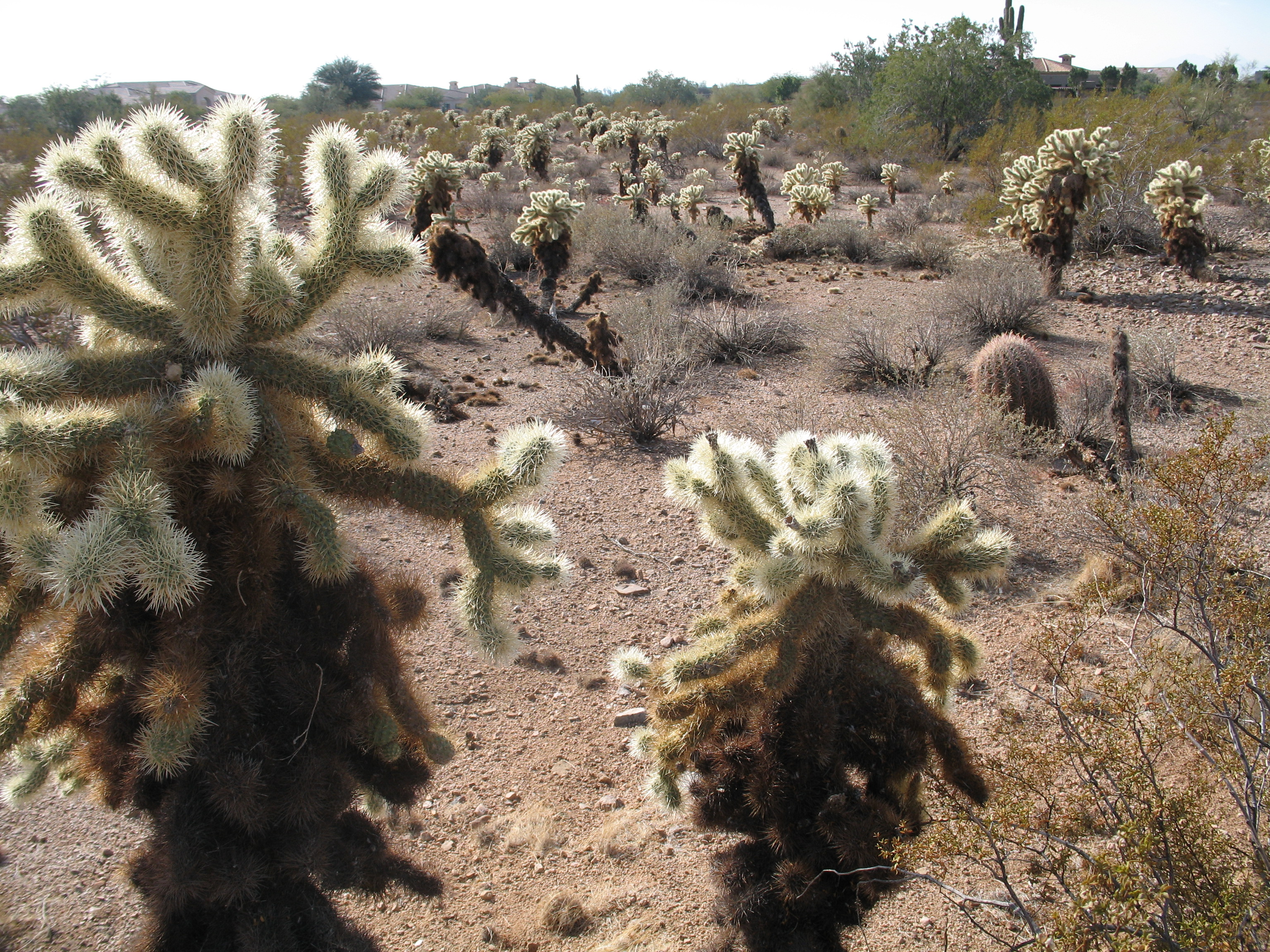 Taken by Dmcdevit, January, 2007, Scottsdale, Arizona.